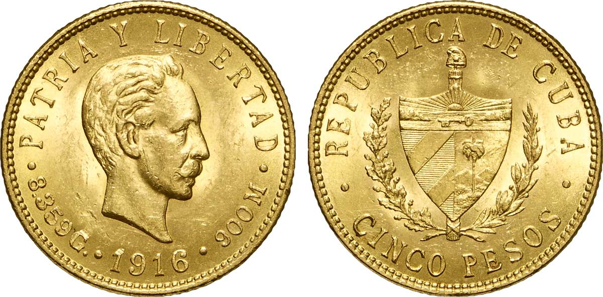 Gold 5 peso coin featuring José Marti, Cuban Republic, 1916